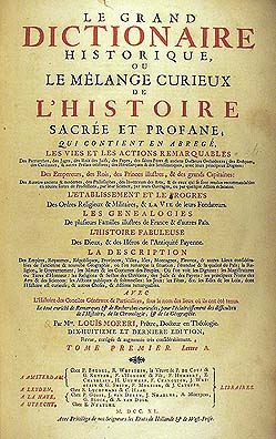 Photo of Louis Moréri's Le grand Dictionnaire historique.